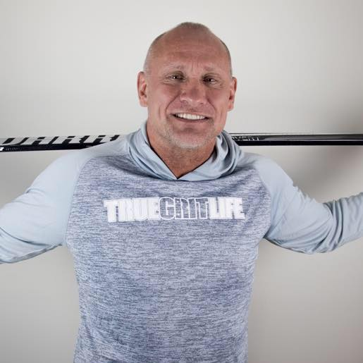 Tom Laidlaw: Former NHL defenseman (NY Rangers | LA Kings) and player agent. Current motivational speaker.